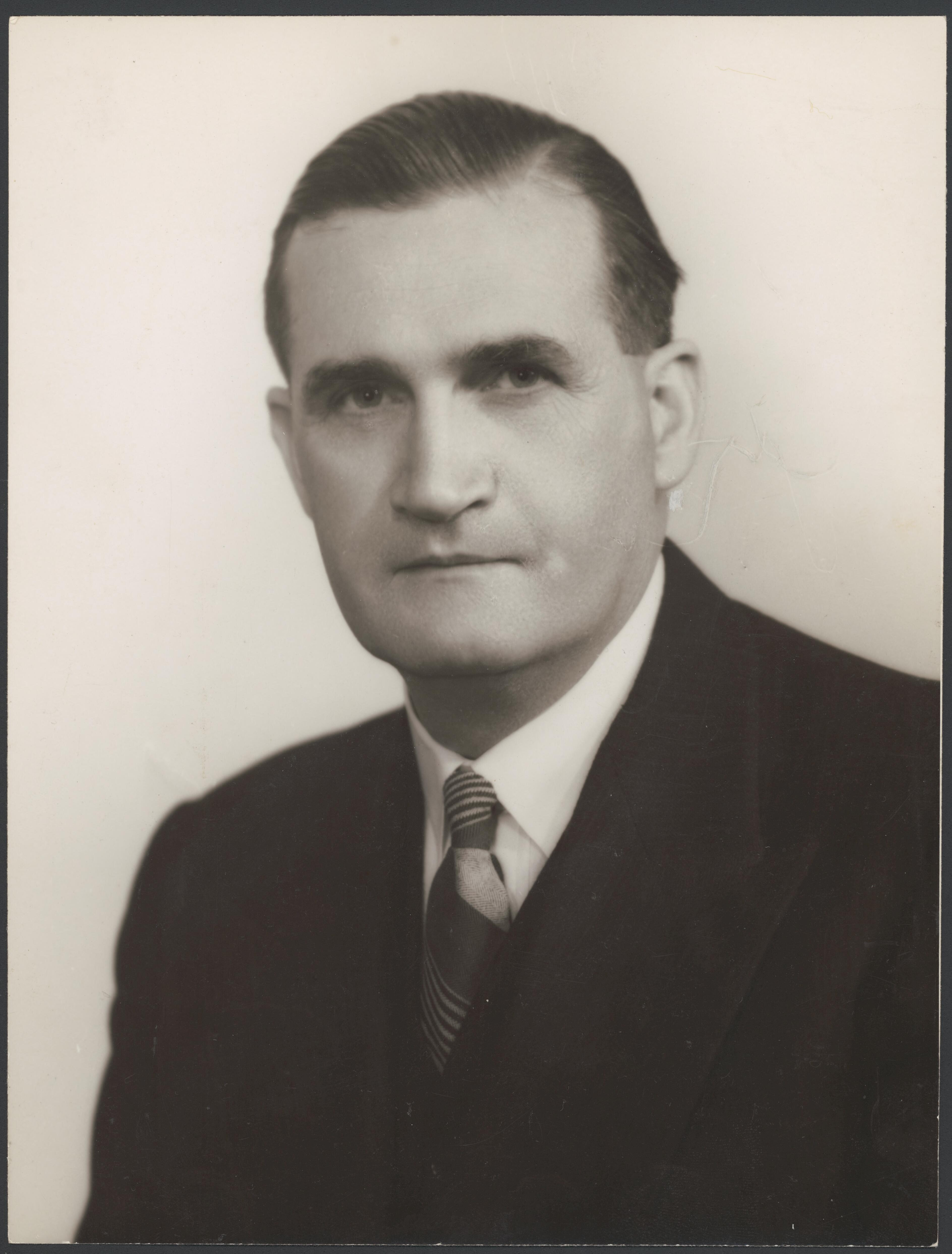 John McEwen in 1950